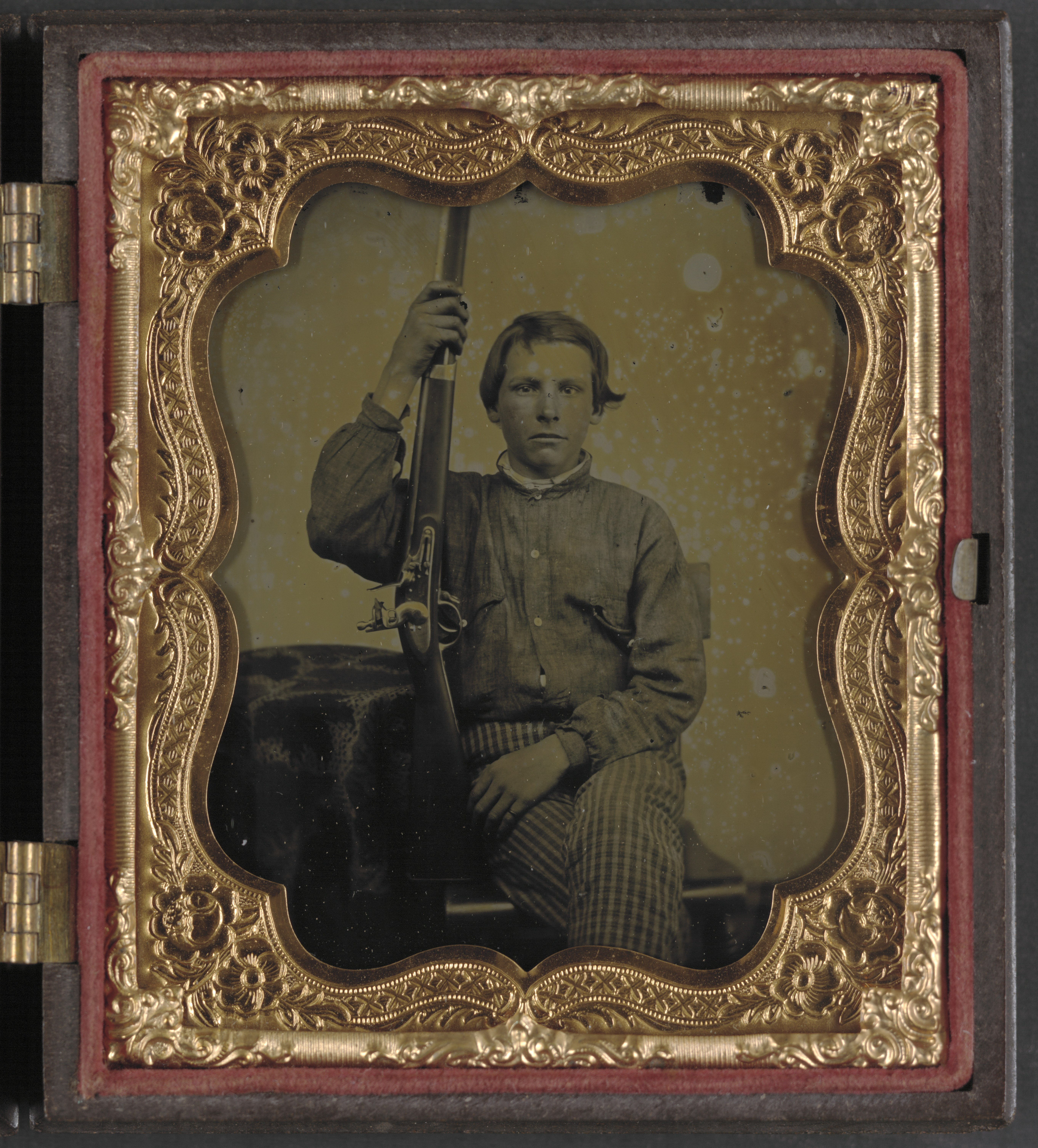 Title: Private William H. Presgraves of Company K, 97th Militia Virginia Infantry Regiment, with rifle Abstract/medium: 1 photograph : sixth-plate ambrotype, hand-colored ; 9.5 x 8.4 cm (case)